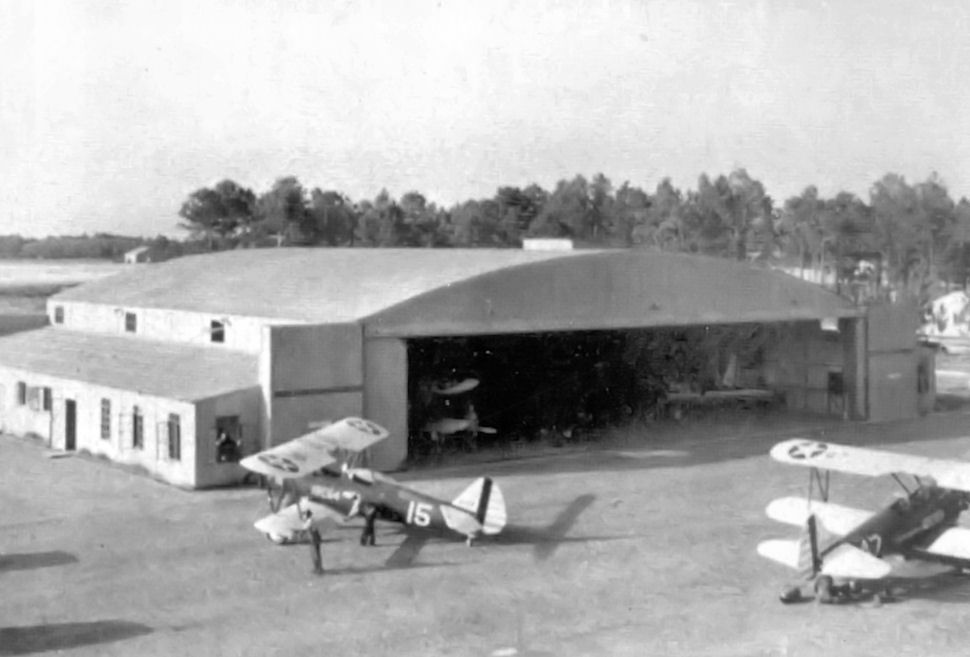 Hangar at Douglas Army Airfield, Georgia, 1943